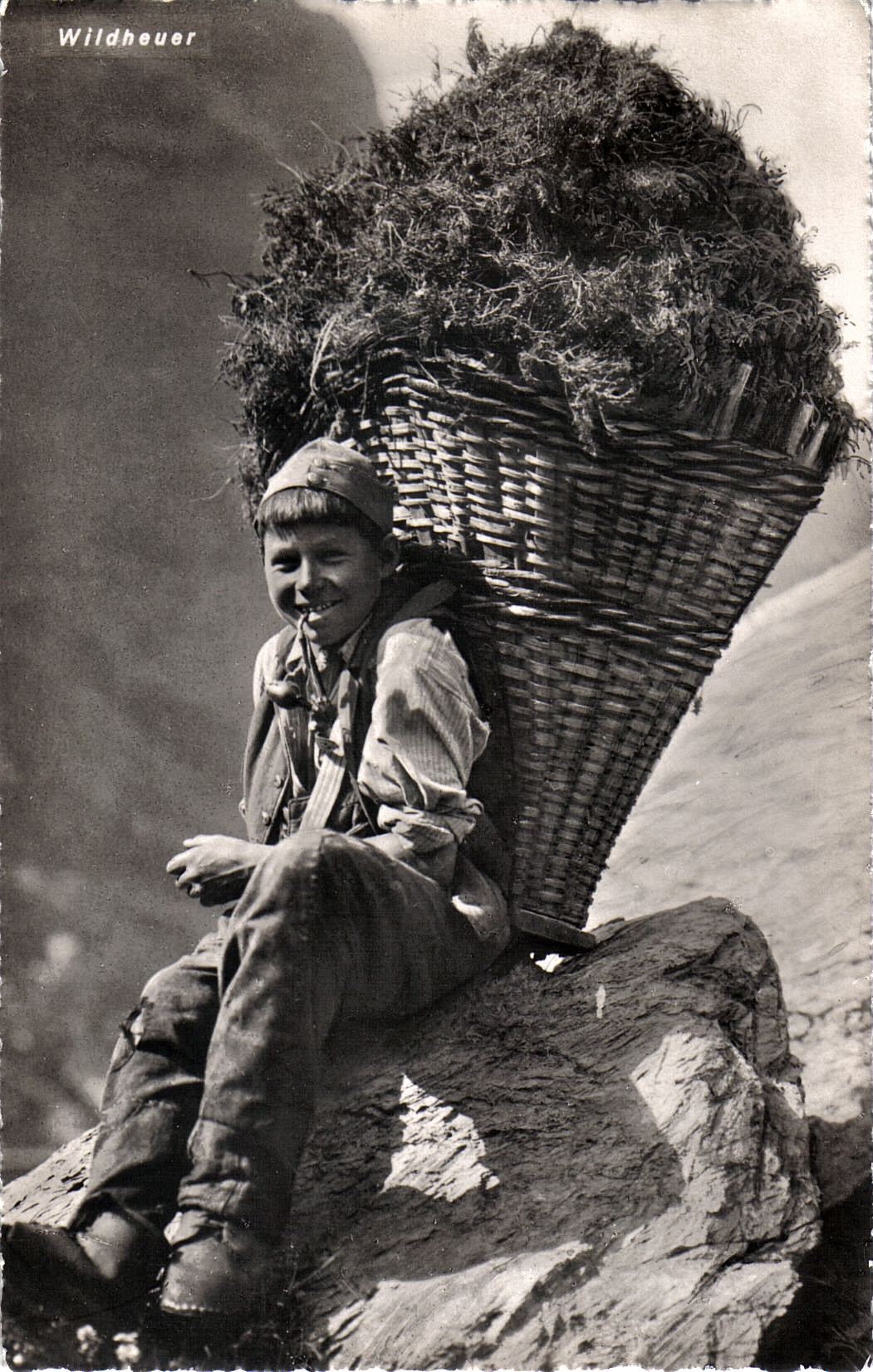 Young "Wildheuer" (Switzerland). Postmark 1942. || Wildheuer went for cutting wild grass on steep and remote mountain slopes.